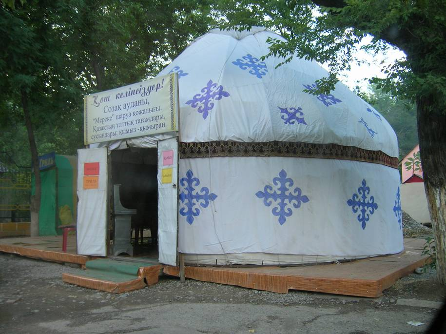 I took this photo of a yurt in Shymkent, Kazakhstan in the summer of 2006. Photo taken by Russell Solomon